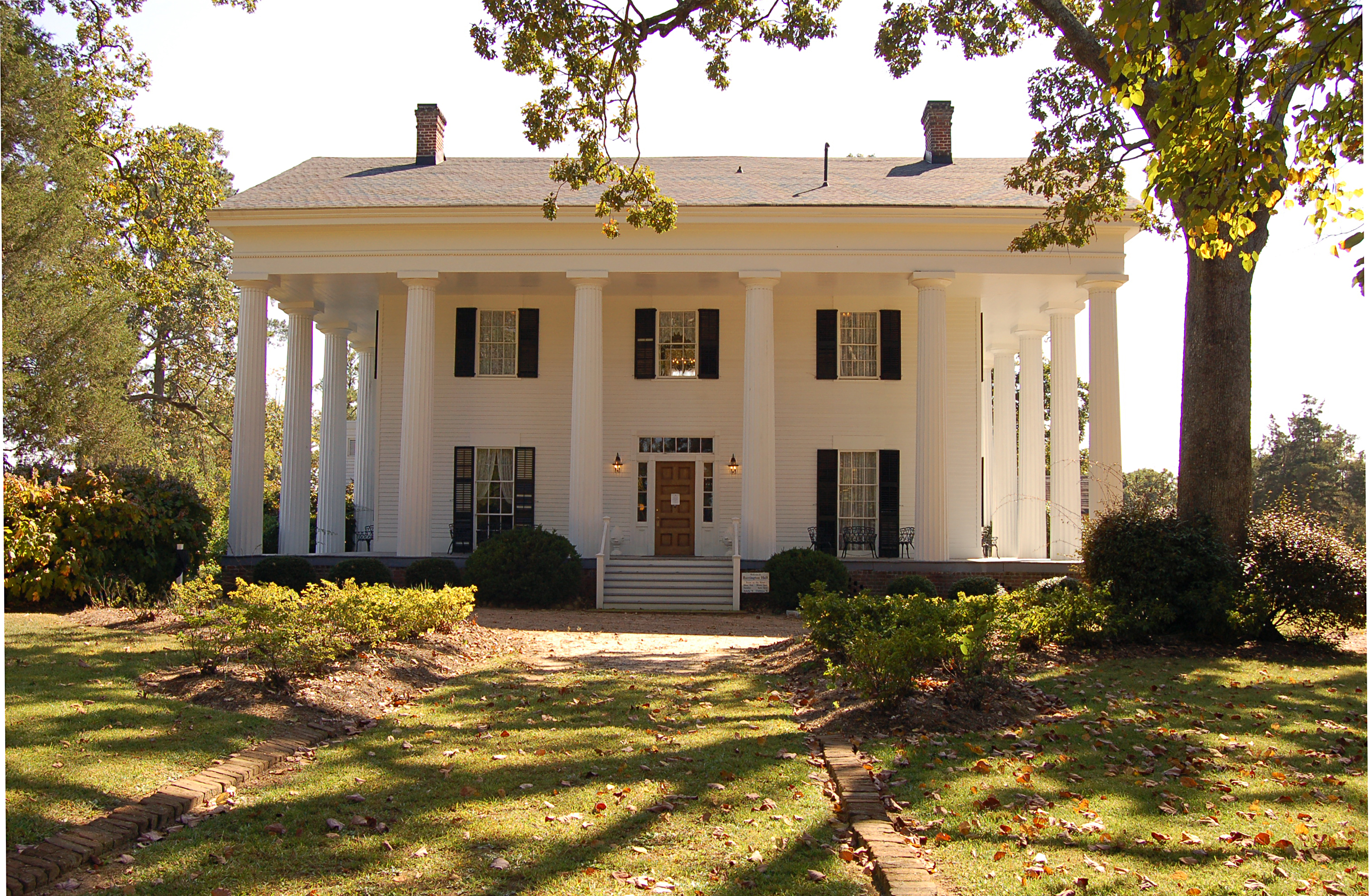 Barrington Hall, North/front side, circa 1842 example of Greek Revival Temple Architecture, National Register of Historic Places, Roswell, Georgia, USA